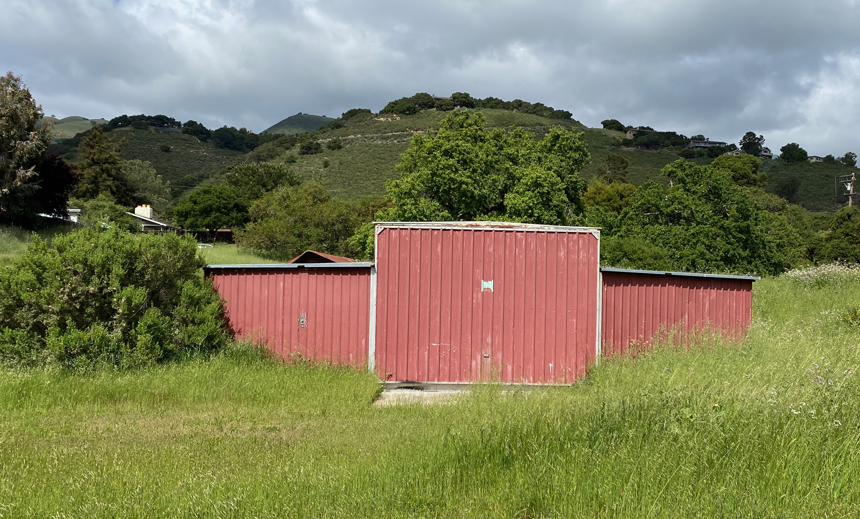 This is a picture of one of the orginal Carmel Valley Airport hangers that I took on April 21, 2020.